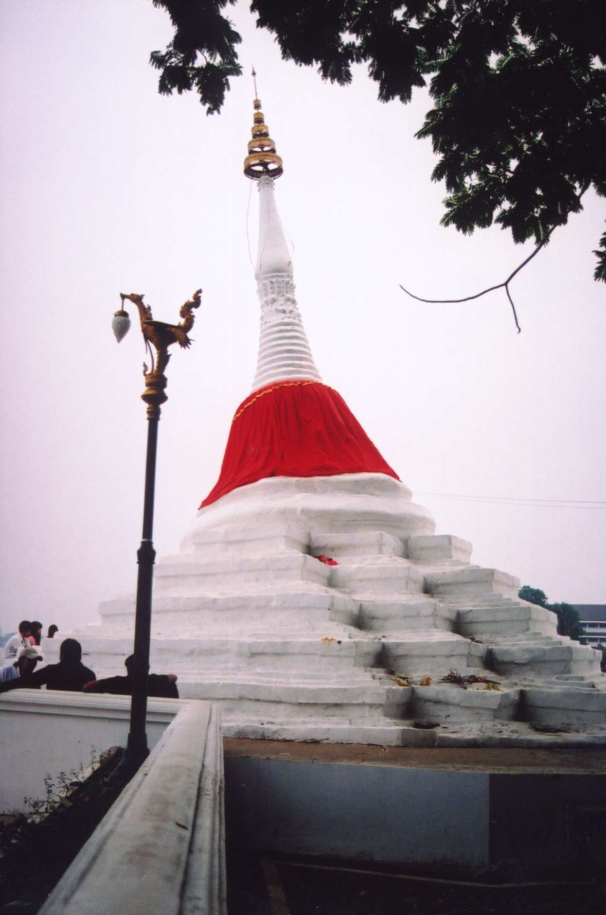 Ko Kret leaning chedi